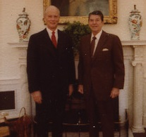 John J. Louis, Jr., Ronald Reagan and Jack Germond in 1981 in Oval Office